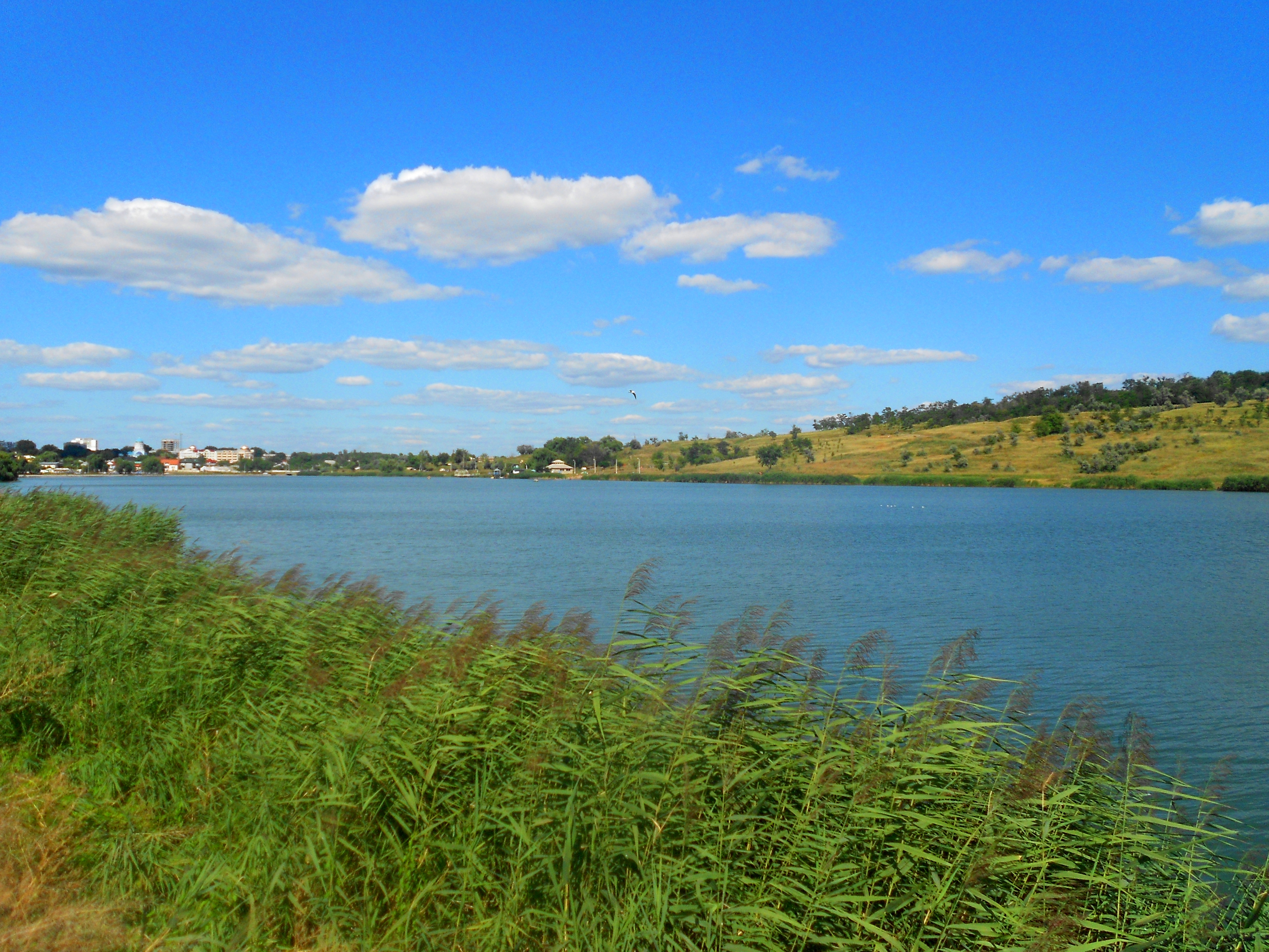 City Lake of Bălți